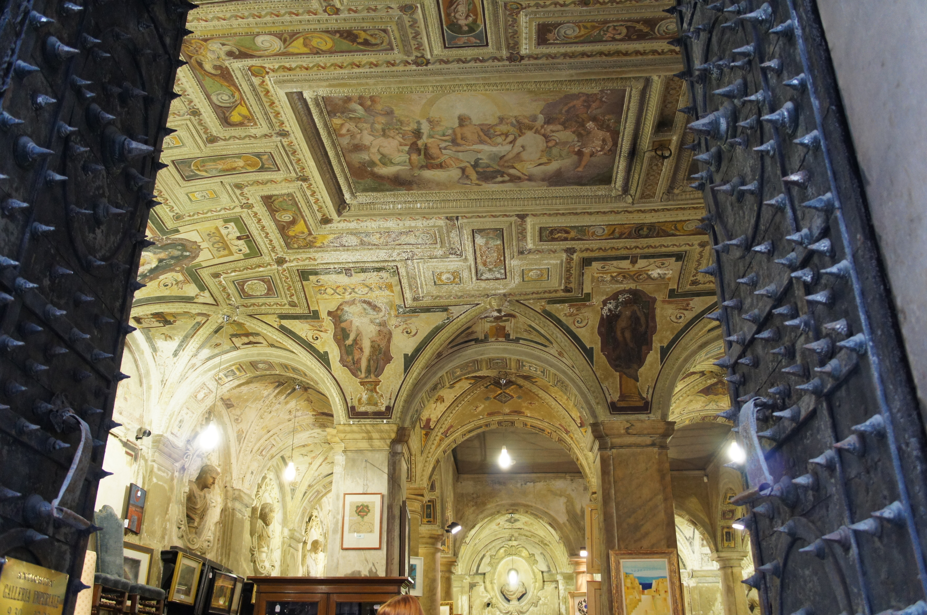 Palazzo Gio Vincenzo Imperiale, Genoa